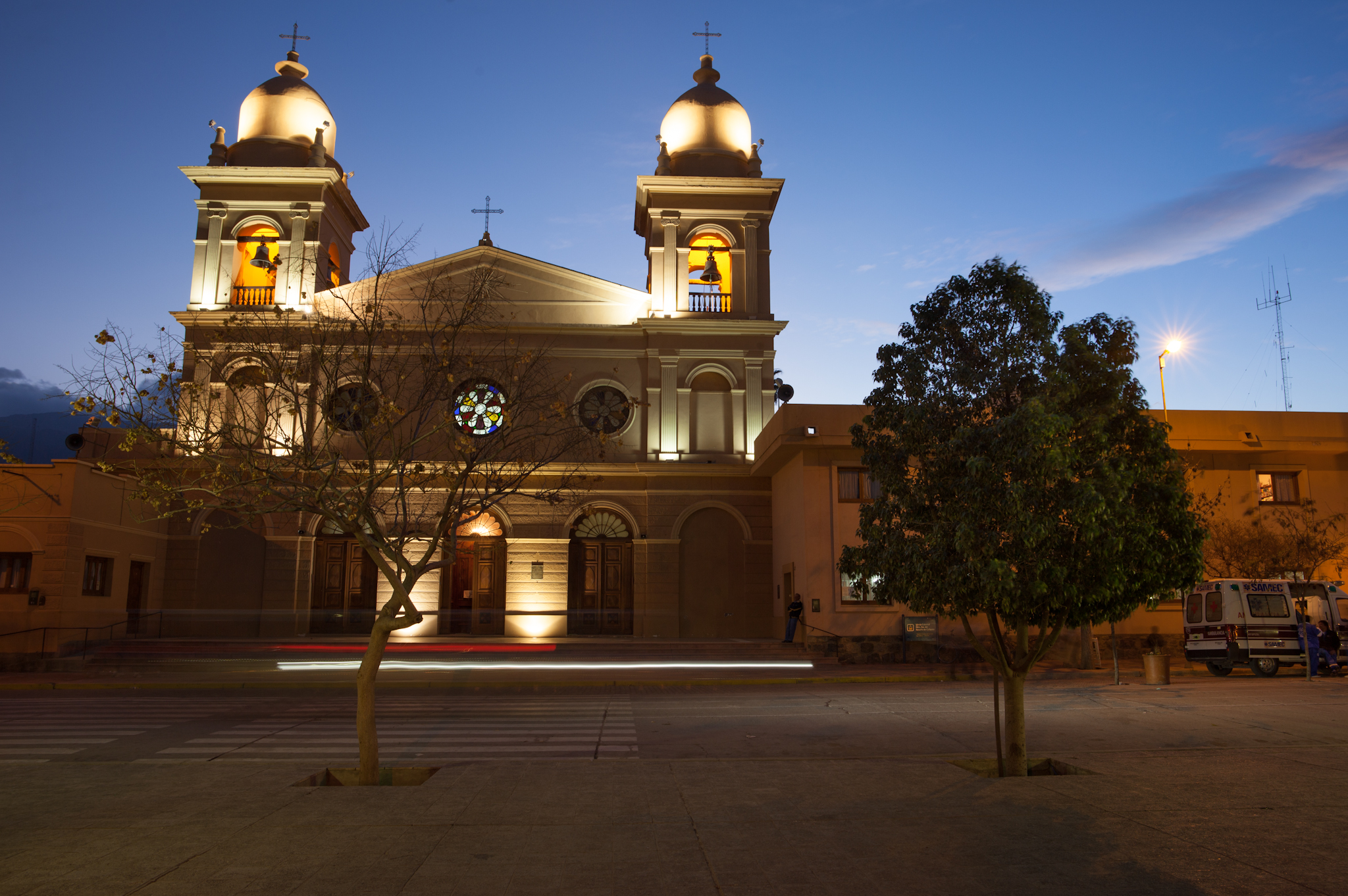 Cafayate Cathedral